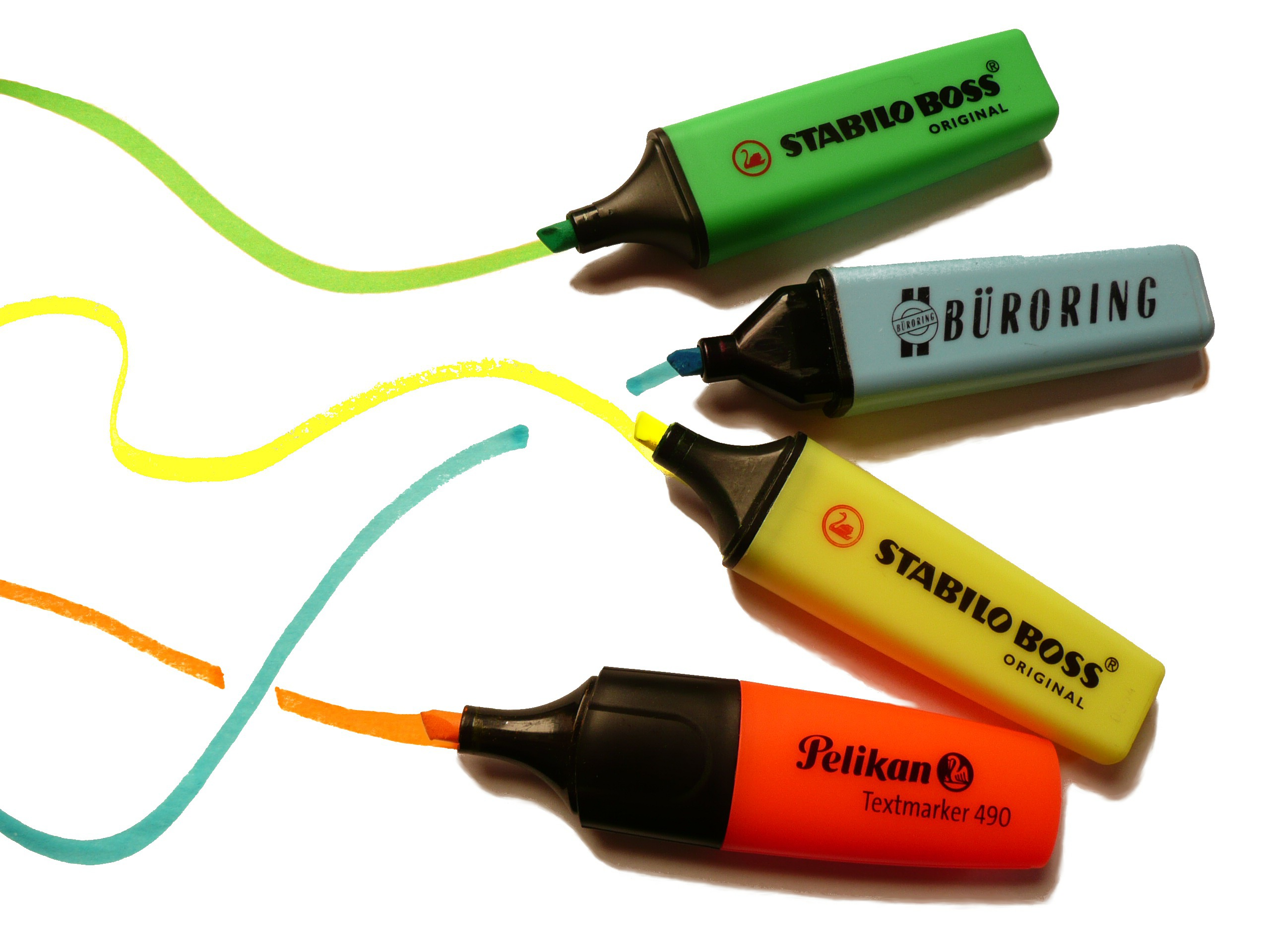 Shot of felt tip pens / fluorescent markers that are painting colorful lines on a white paper. Felt-tip pens in a row, drawing styleful and artful lines.